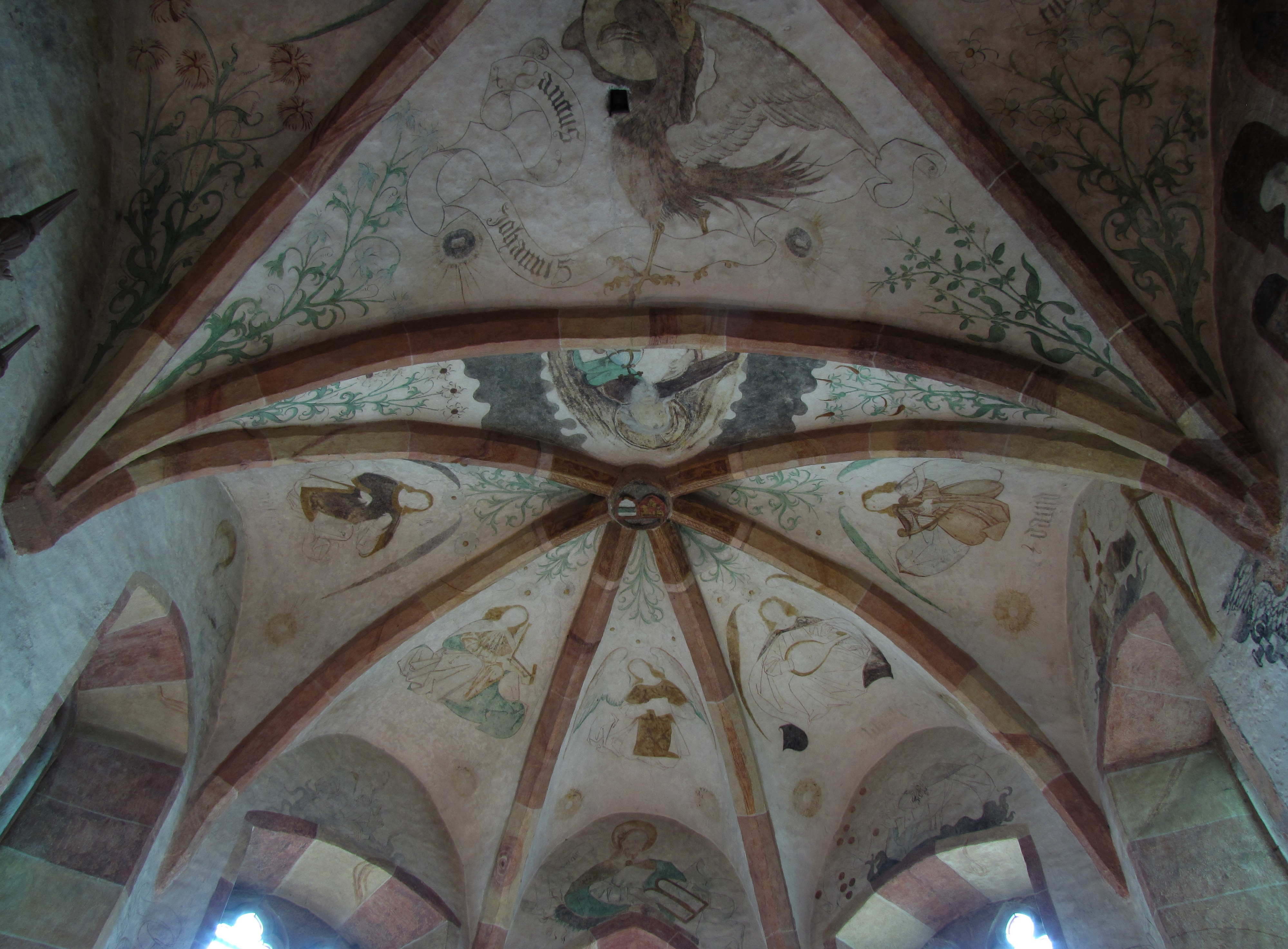 Alsace, Bas-Rhin, Baldenheim, Église protestante (PA00084595, IA67010725). Fresques gothiques du choeur (XVe): 5 anges musiciens (Jugement Dernier) et aigle de St-Jean. This object is indexed in the base Palissy, database of the French furniture patrimony of the French ministry of culture, under the references IM67014672 and chœur IM67014640 chœur.